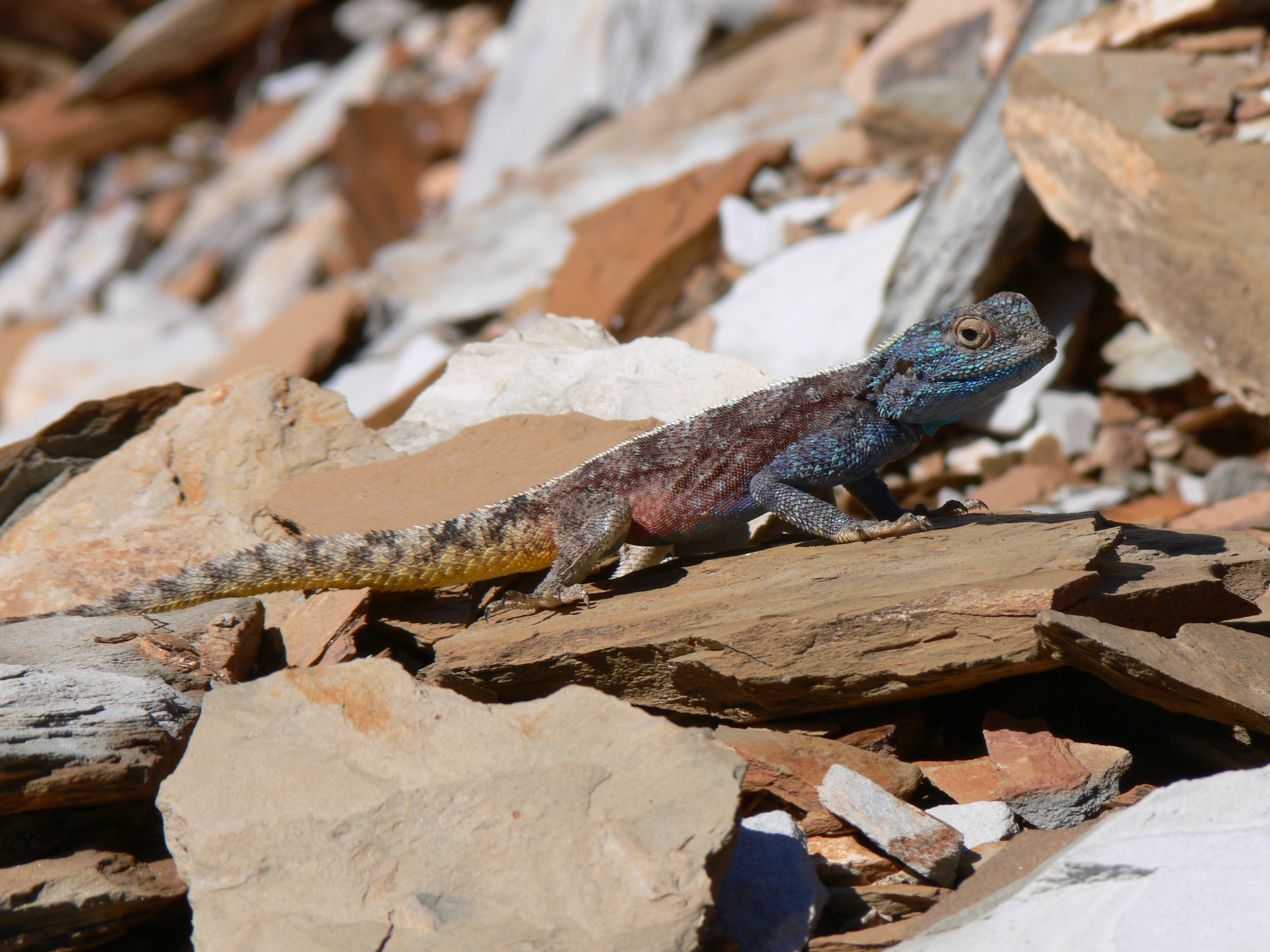 Southern Rock Agama, Agama atra Daudin, Agama in the field, near Barrydale, Western Cape, South Africa